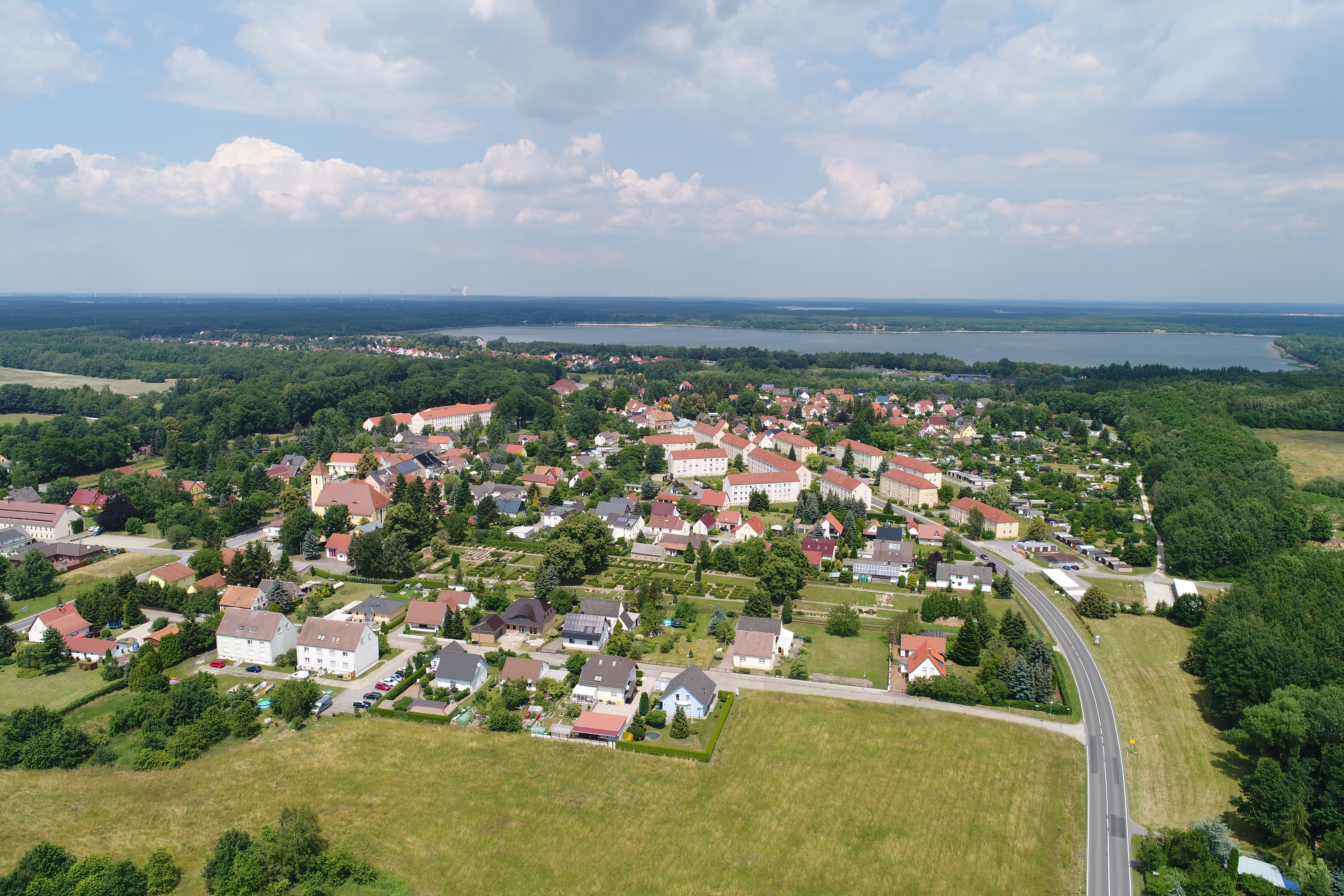 Lohsa (Saxony, Germany) Hornjoserbsce: Powětrowy wobraz Łaza